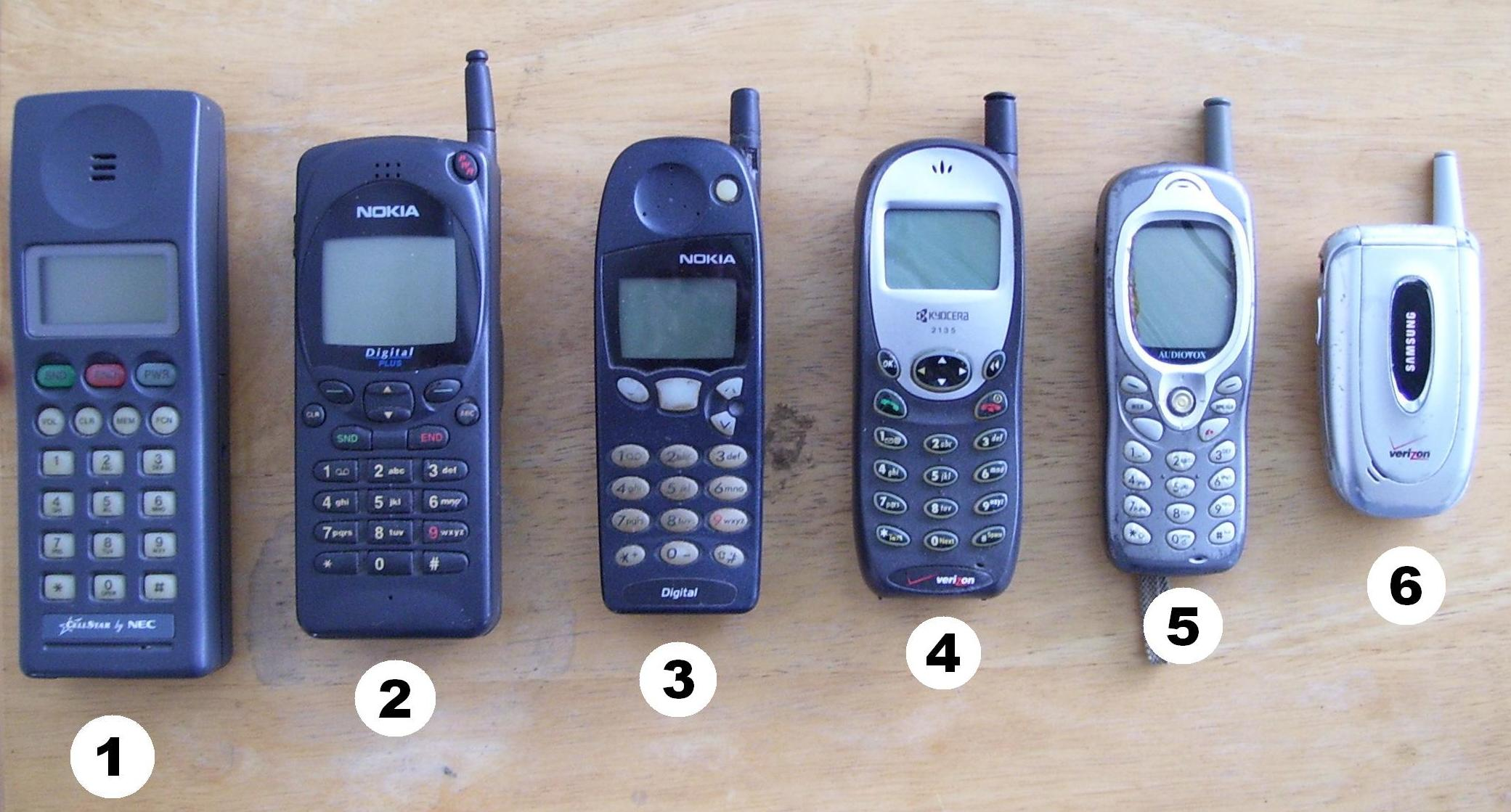 Various cellular phones from the last decade.